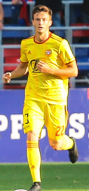 Daniil Lesovoy with FC Arsenal Tula in a game against PFC CSKA Moscow.